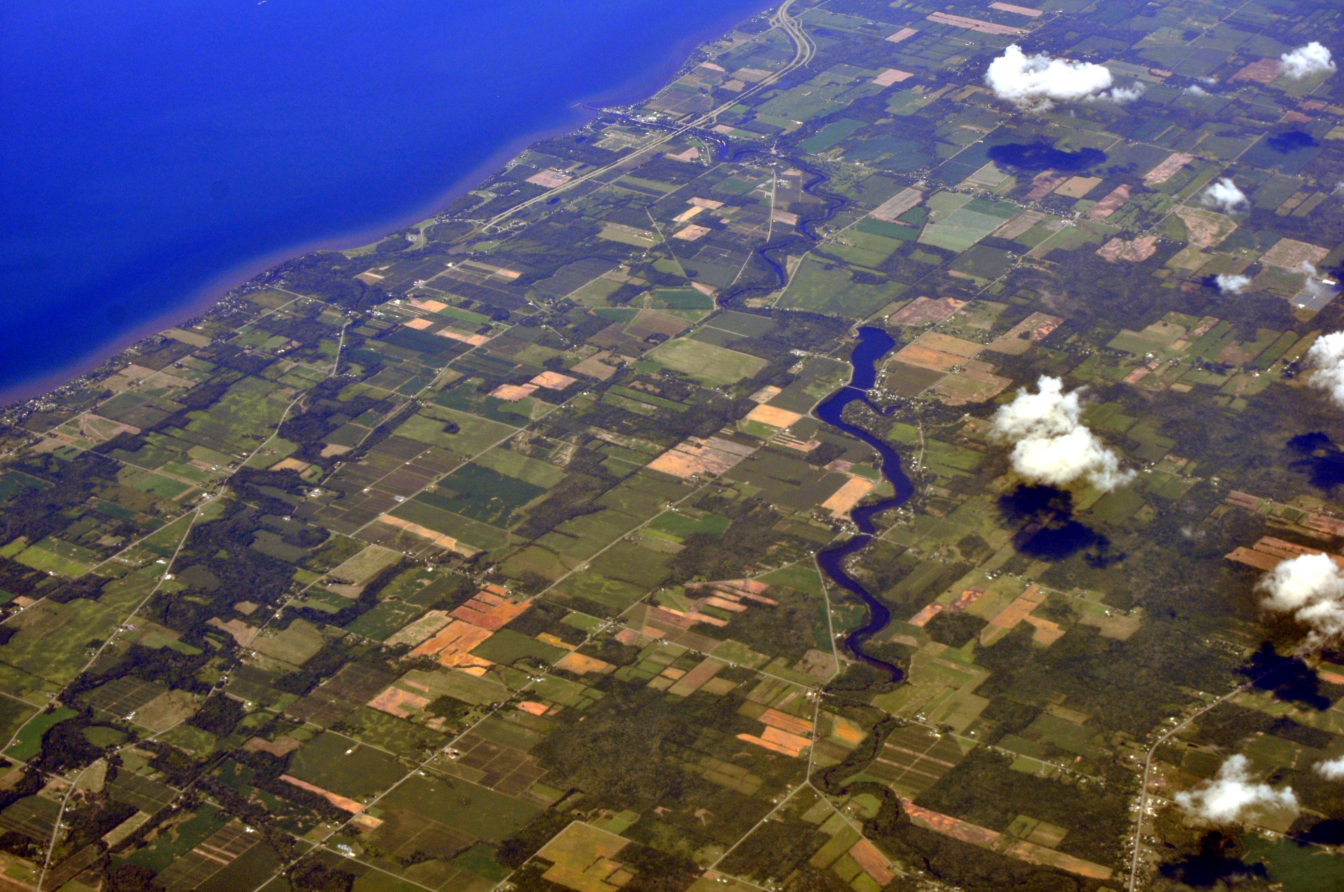 Aerial view of shore of Lake Ontario near Oak Orchard State Marine Park, New York.